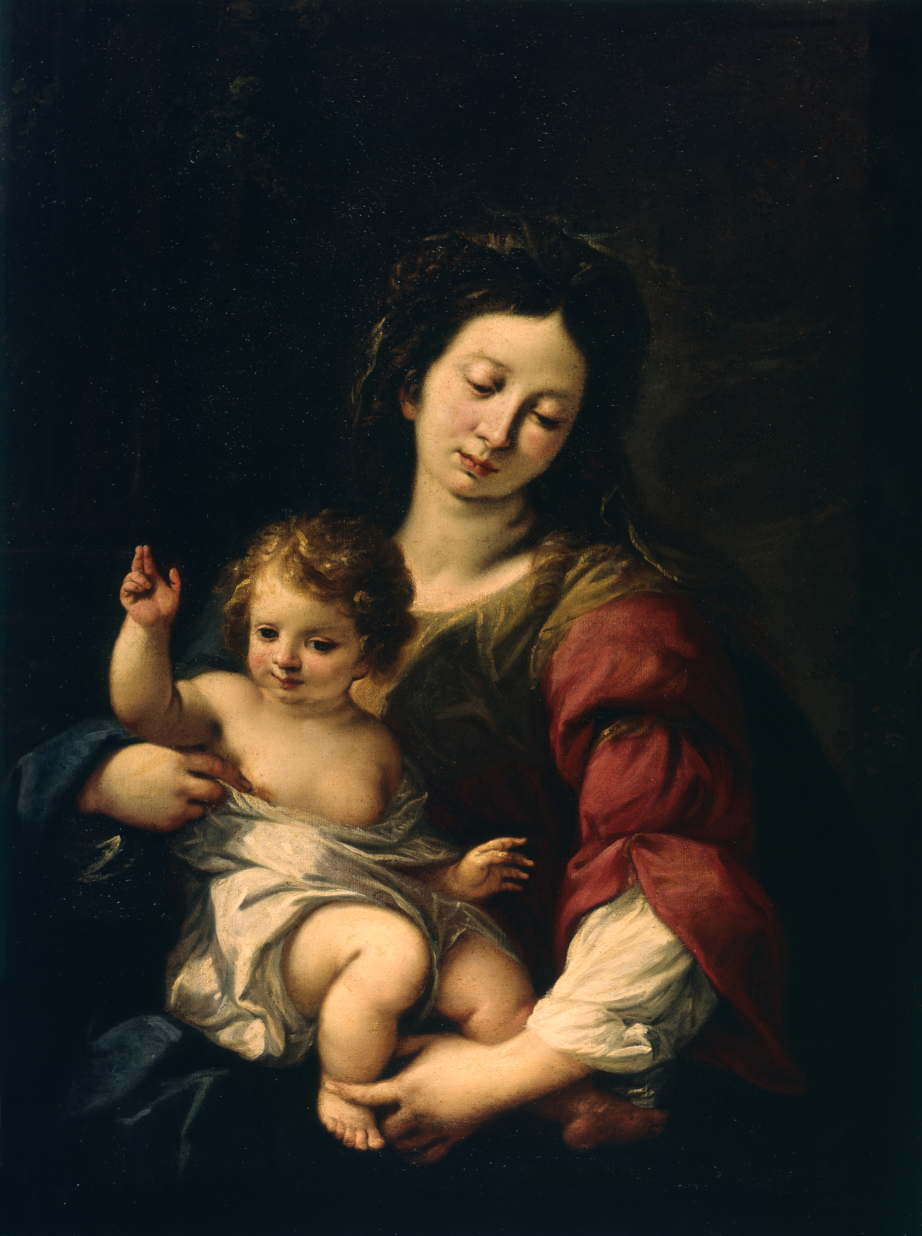 The Madonna holds the Christ Child, who raises two fingers in a gesture of blessing. Their tender bond expressed through the sweetness and gracefulness of the figures reveals Nuvolone's study of the famous Madonnas painted by Raphael (1483-1520) (see Walters 37.484). The slightly elongated proportions add elegance to the figural style. By the use of sfumato (the almost imperceptible blending of light and shade), the figures emerge softly and luminously from the dark background. Although the artist was active in the 17th century, the lightness of his manner would have made him eminently attractive to 18th-century patrons.